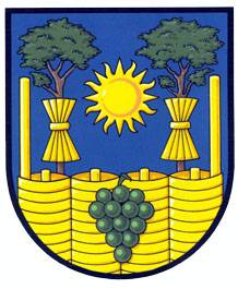 Municipal coat of arms of Archlebov village, Hodonín District, Czech Republic.